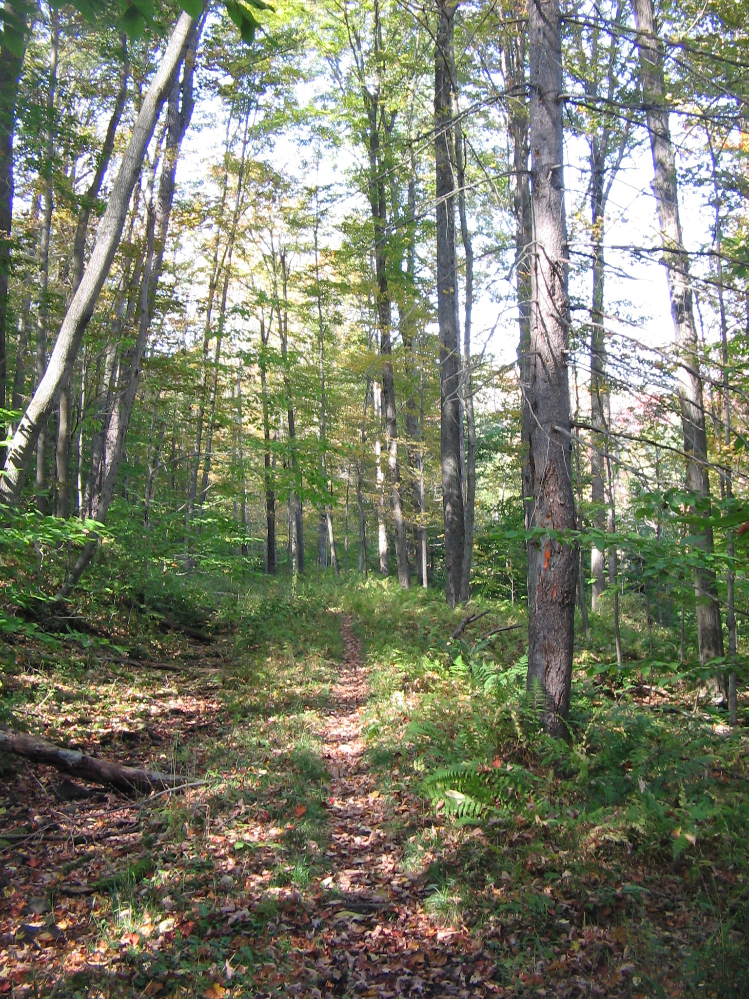 Old Loggers Path trail, north of Masten in McNett Township, Lycoming County, Pennsylvania, United States. Note orange blaze.